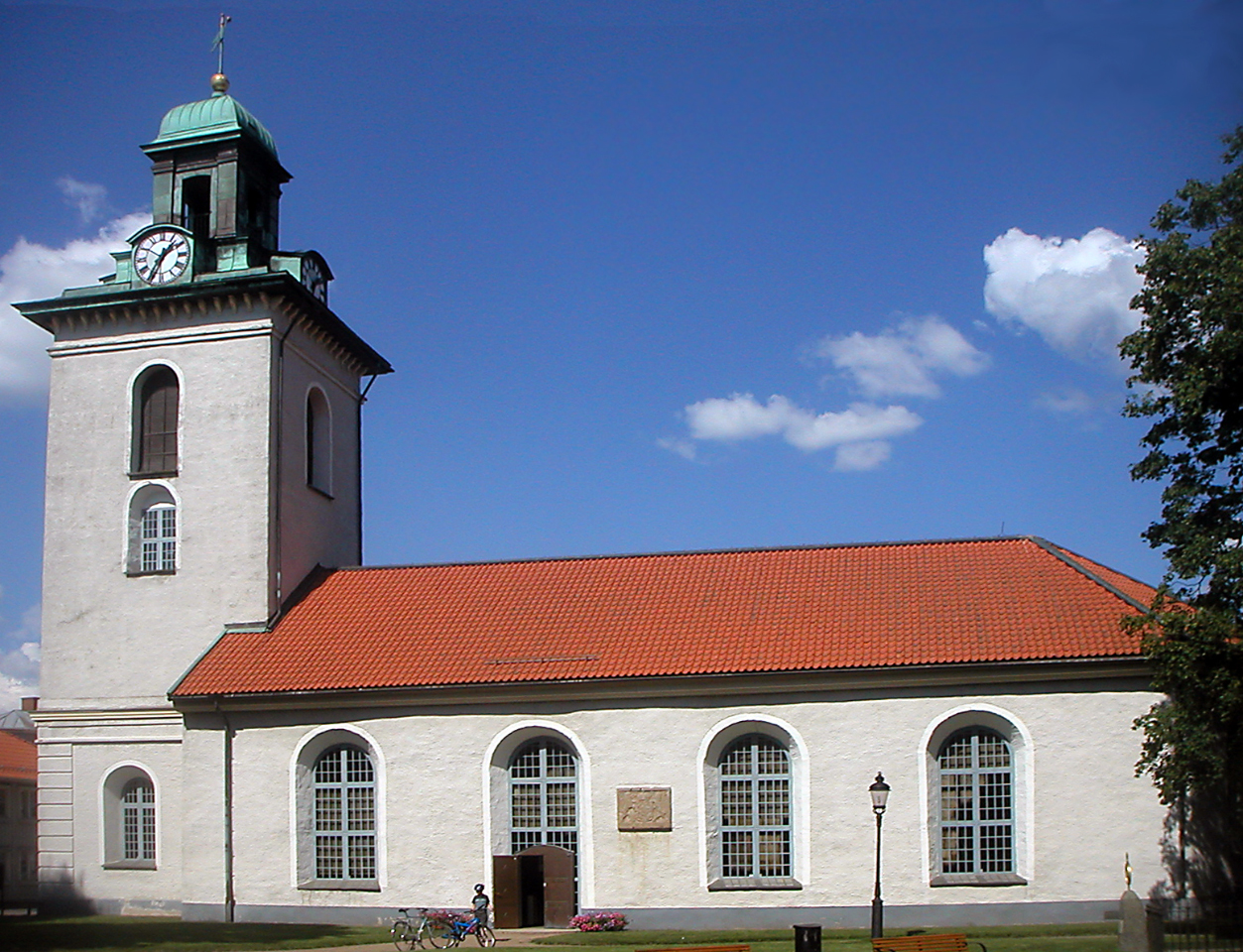 Christinae Church in Alingsås, Sweden.